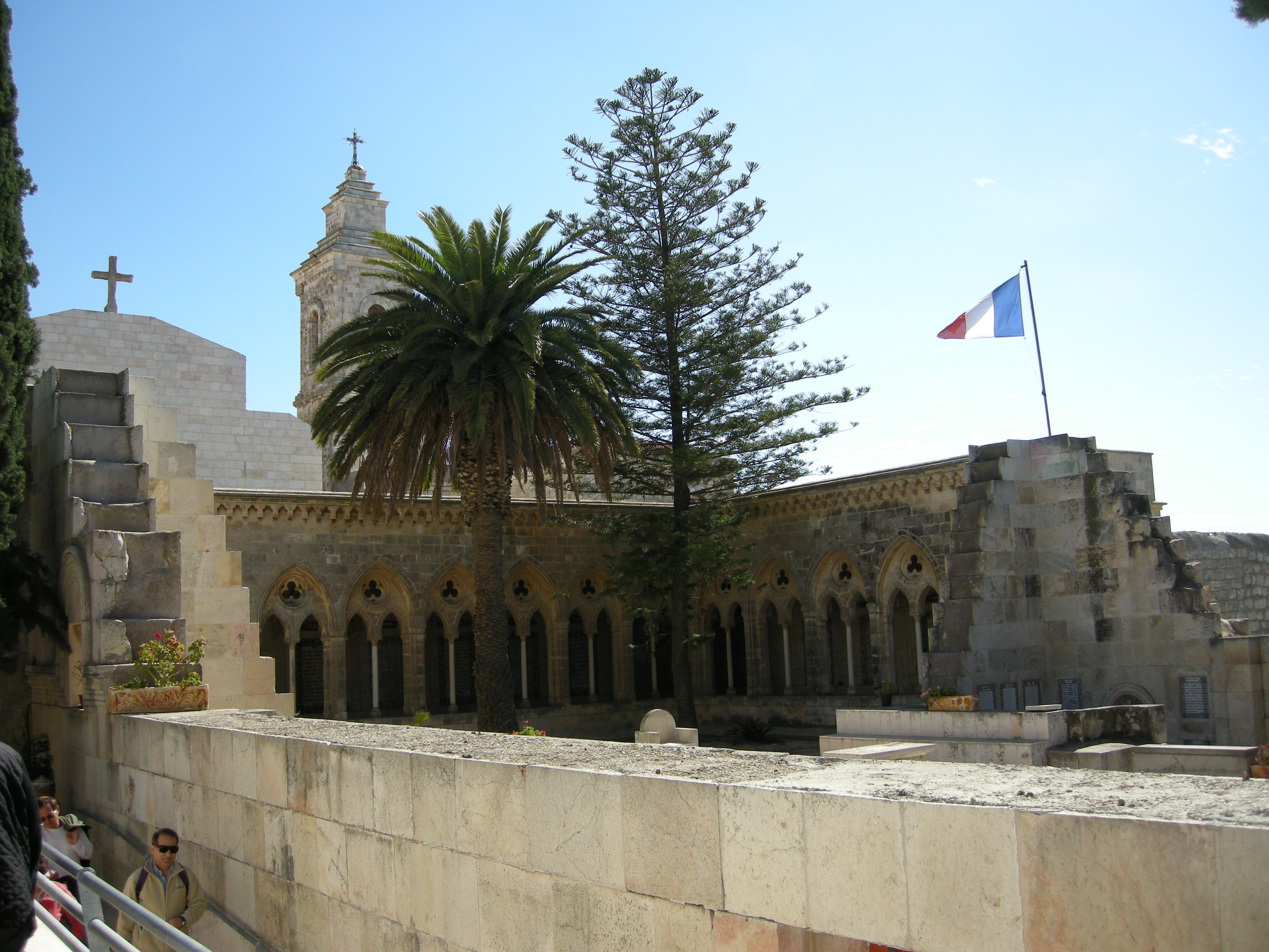 Jerusalem - Mount of Olives - Church of Pater Noster - This is not the Church of All Nations (erroneous name)